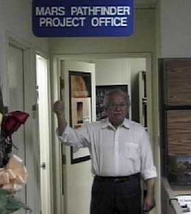 Tony Spear at the Mars Pathfinder HQ, Jet Propulsion Laboratory